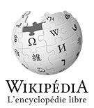 Wikipedia logo 2.0